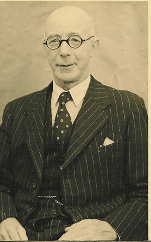 Photograph of Thomas Edward Miln, second Managing Director of Gartons Limited taken in 1960.